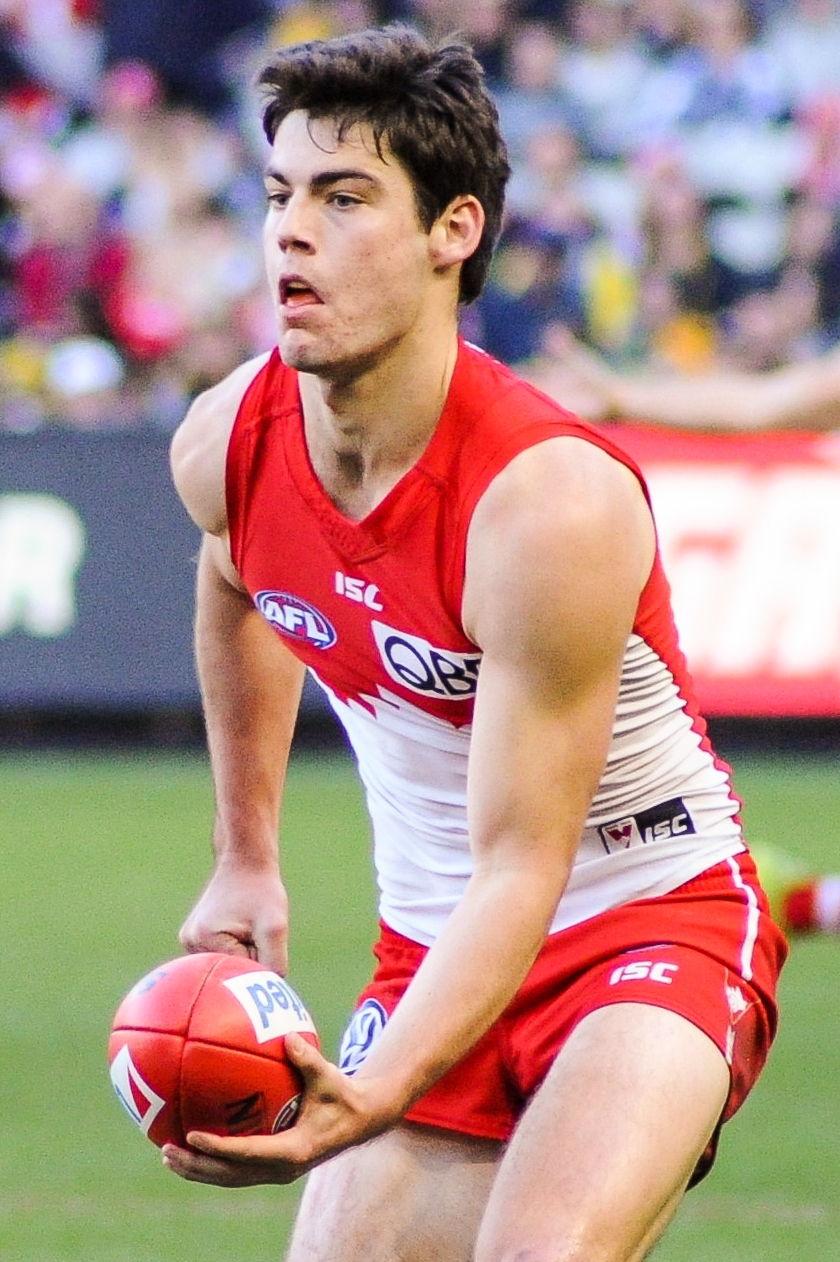 George Hewett during the AFL round thirteen match between Richmond and Sydney on 17 June 2017 at the Melbourne Cricket Ground in Melbourne, Victoria.